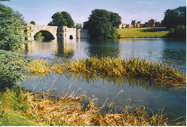 Grand Bridge and Blenheim Palace from the North-west. This is an artificial landscape, designed to give the Marlboroughs a "romantic" view of countryside, water and bridge. The bridge contains rooms.